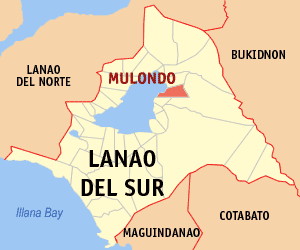 Map of the Lanao del Sur showing the location of Mulondo